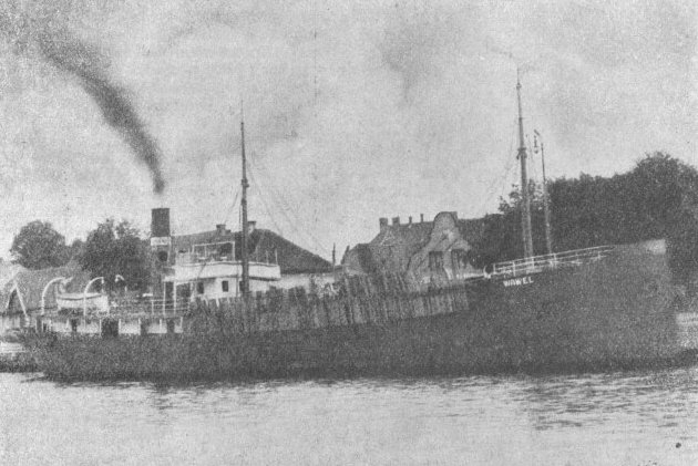 Polish steamer SS Wawel (1922-26), ex. Karen, ex. Natale